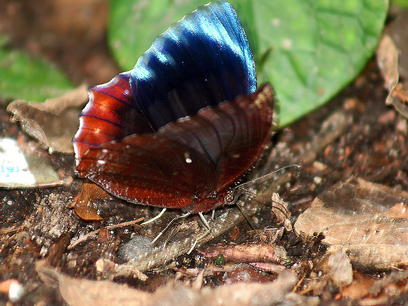 Common Palmfly Elymnias hypermenstra undularis in Kolkata, West Bengal, India.